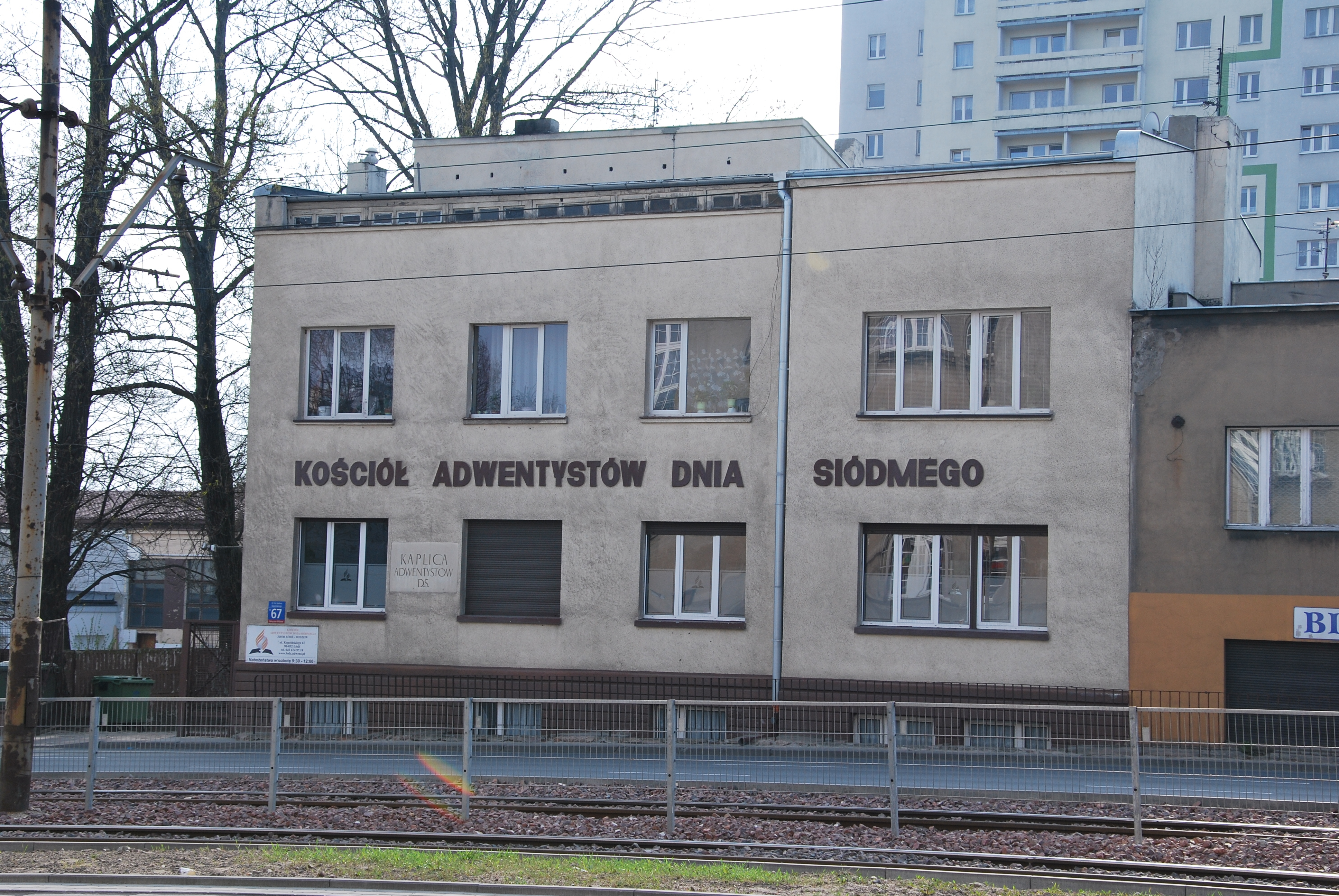 Seventh-day Adventist Church, Łódź 67 Kopcińskiego Street